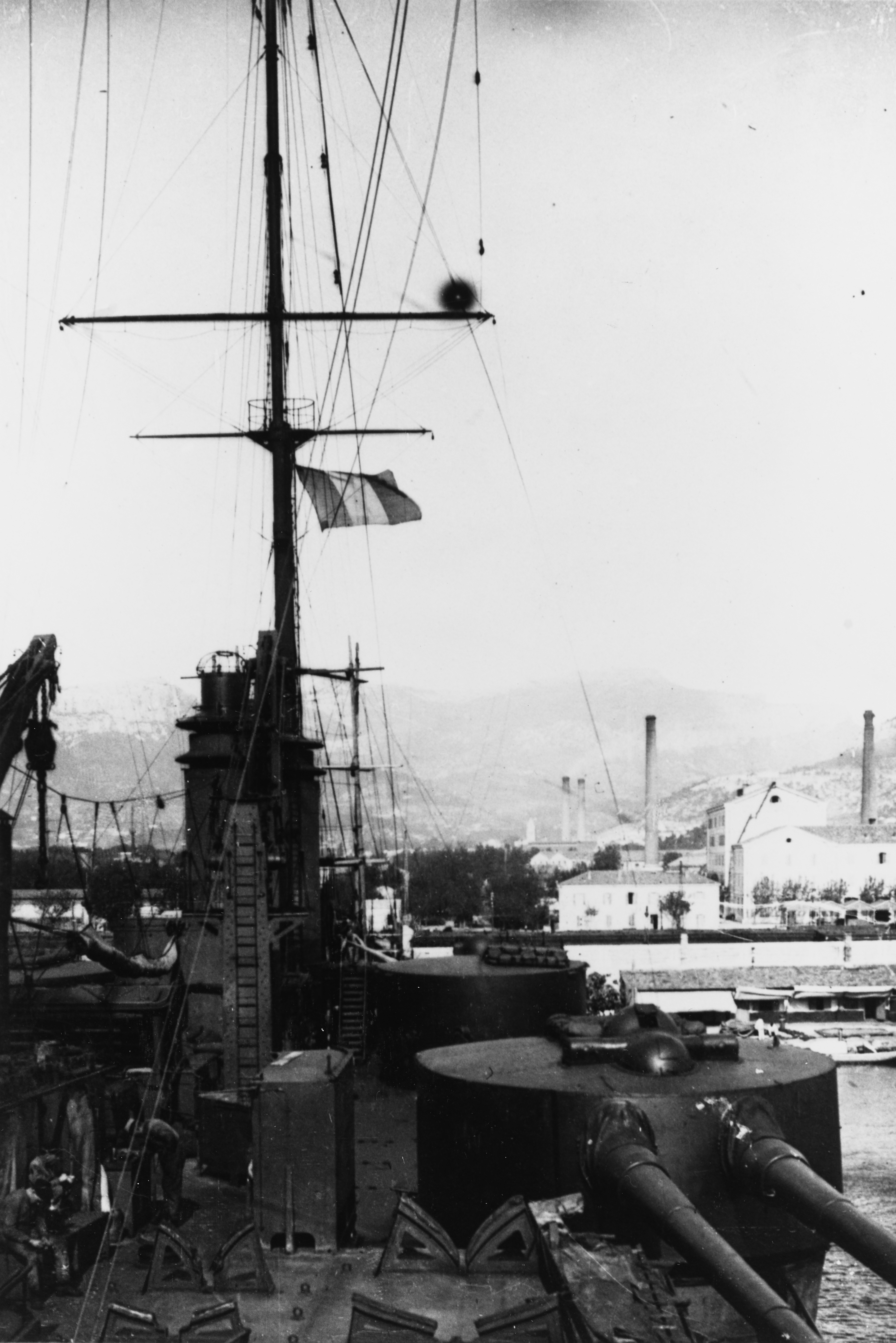 Title: CONDORCET (French battleship, 1909-1942) Caption: Secondary (9.4") turrets photographed at Toulon, France, circa 1919 by Robert W. Neeser.